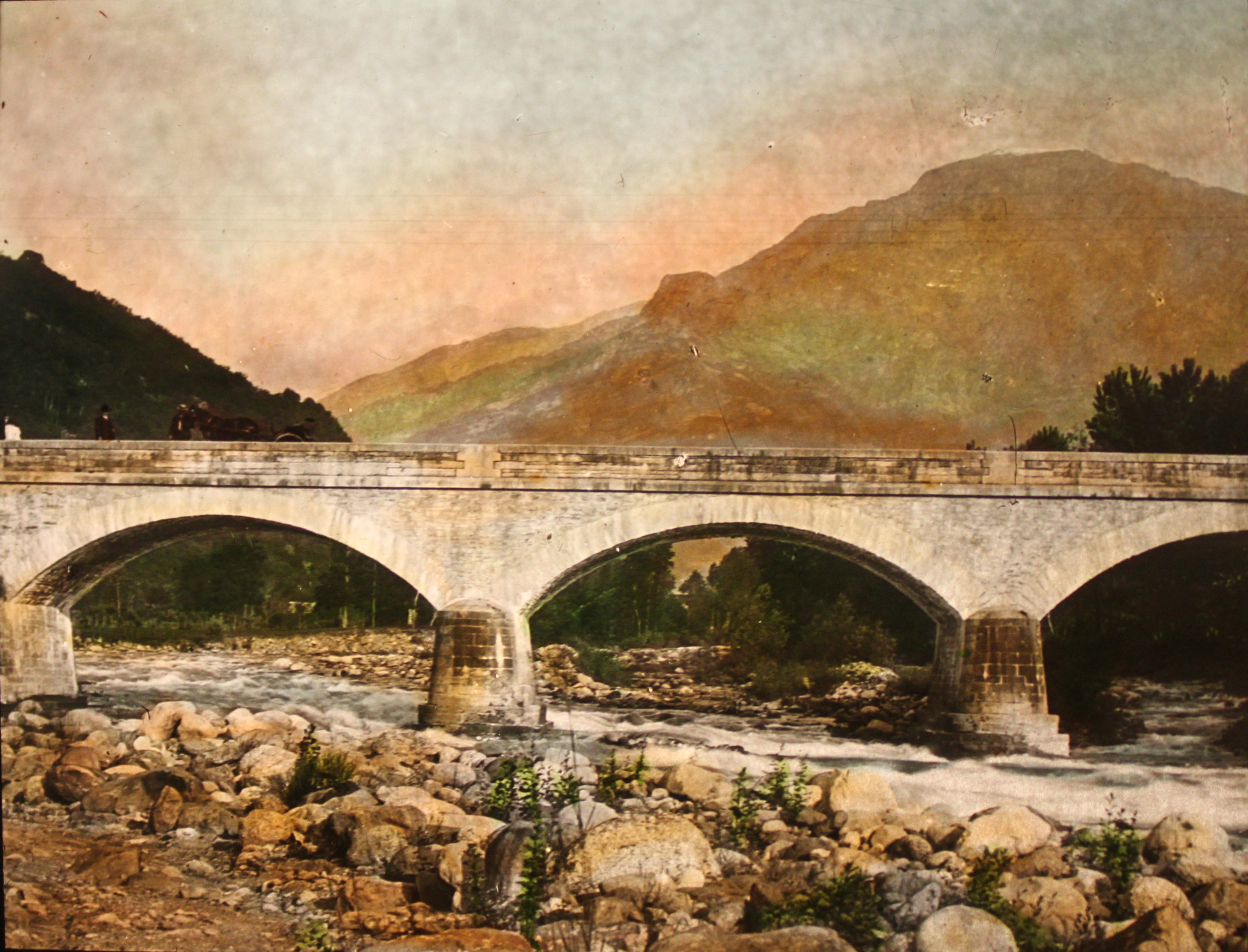 In the Waldensian Valleys, Italy. @1895. Keystone Glass Slide. L-1446 - Bridge over Paillichee (Pellice River)